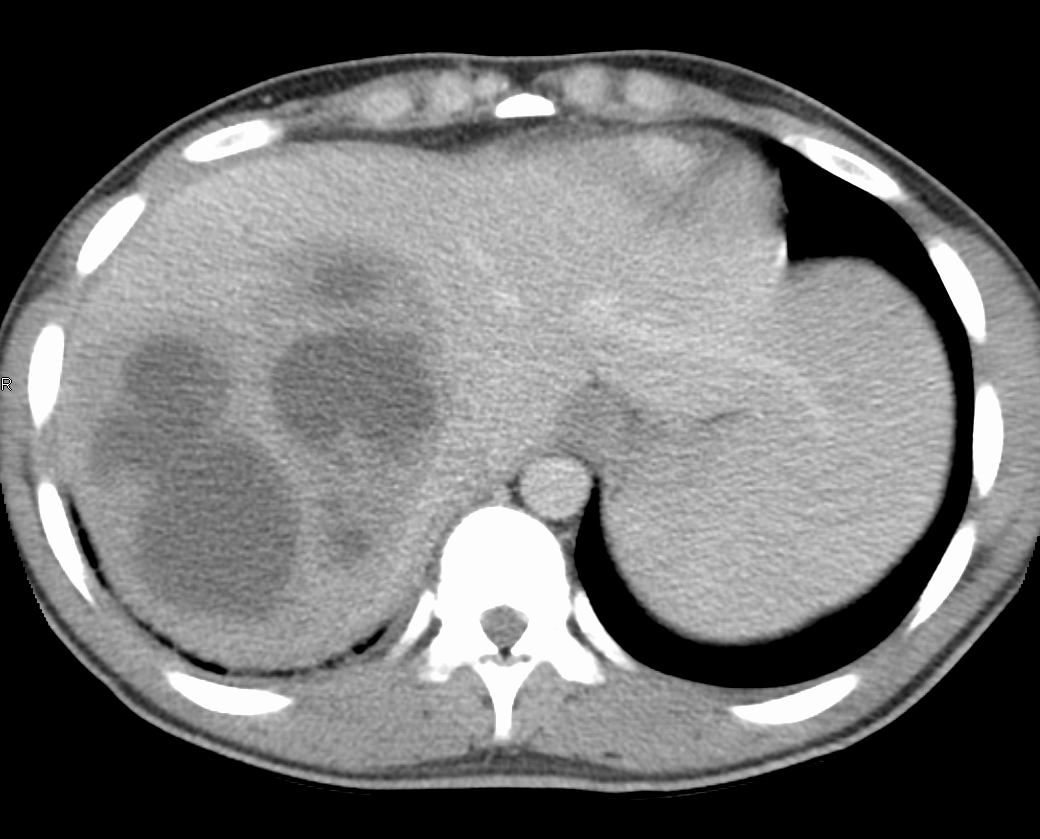 Large liver abscess presumed to be the result of appendicitis